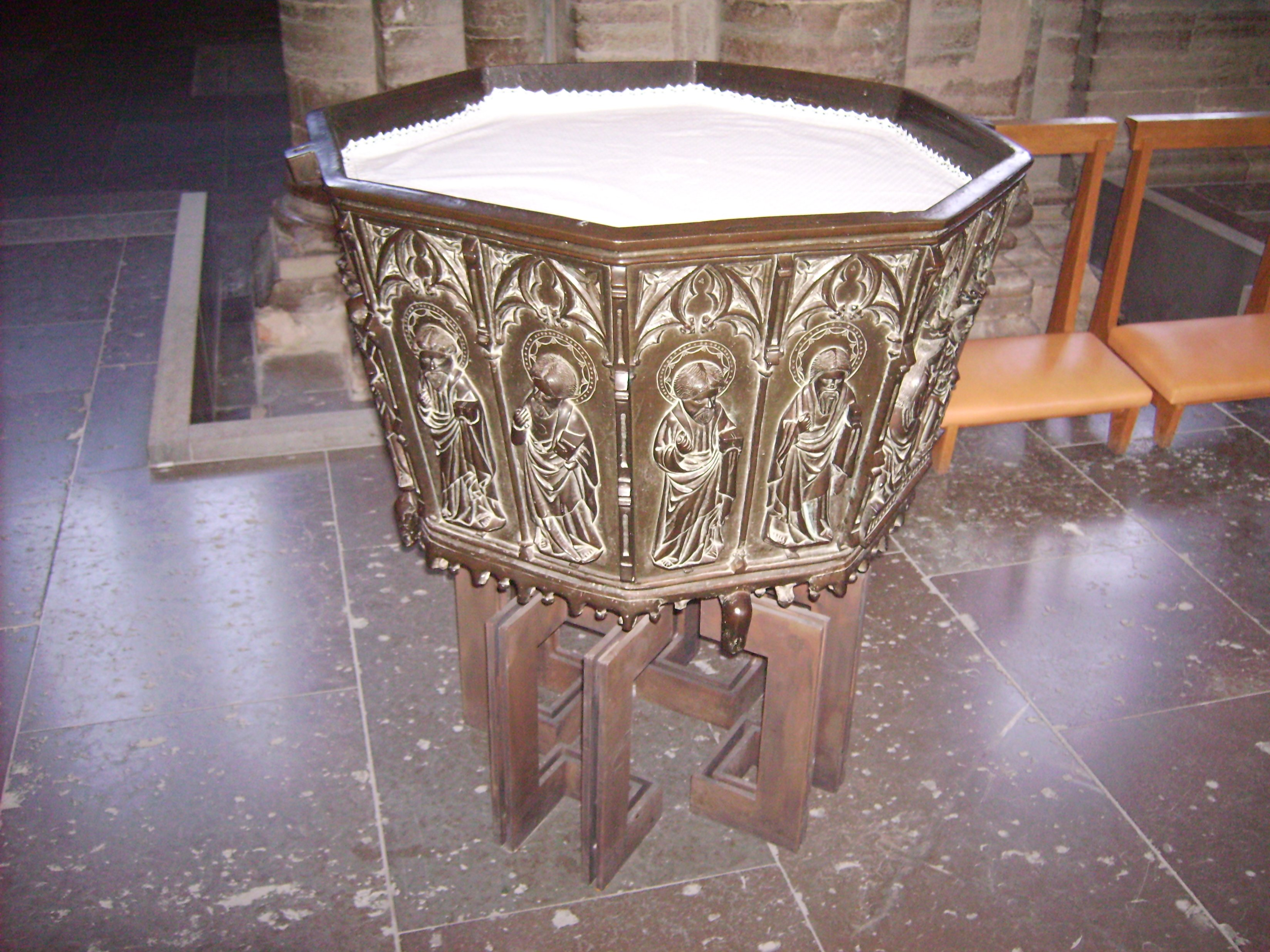 Photo by Harri Blomberg.